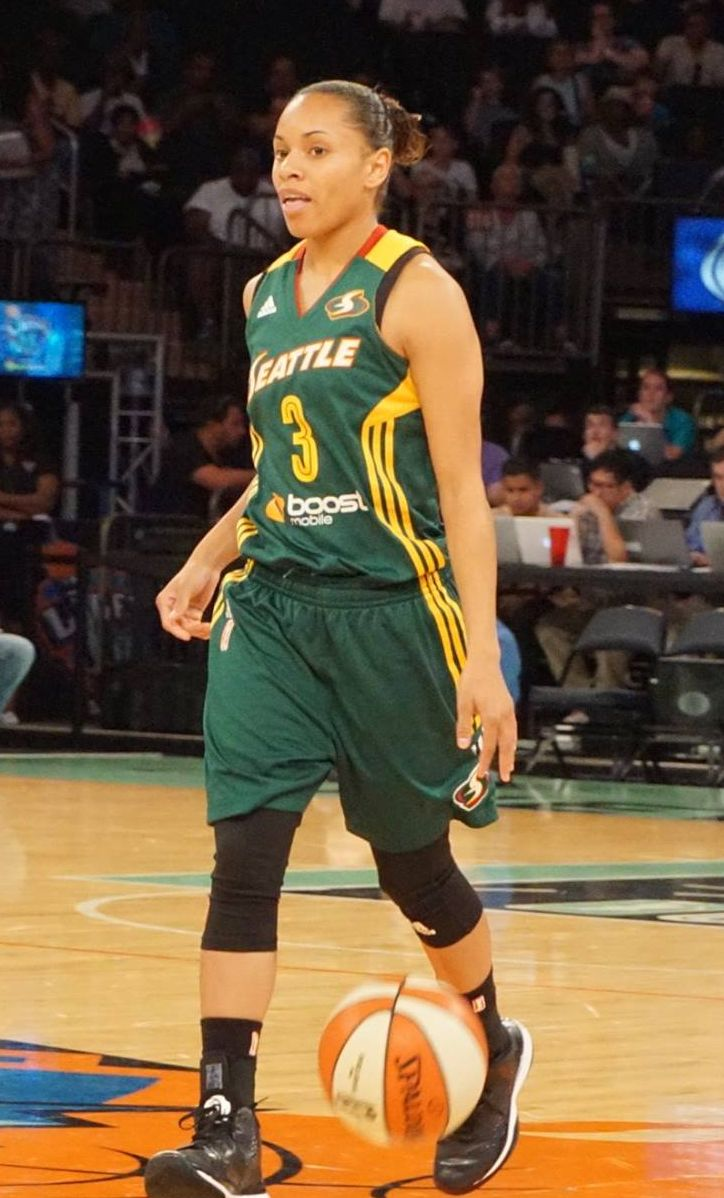 Angel Goodrich at 2 August 2015 game